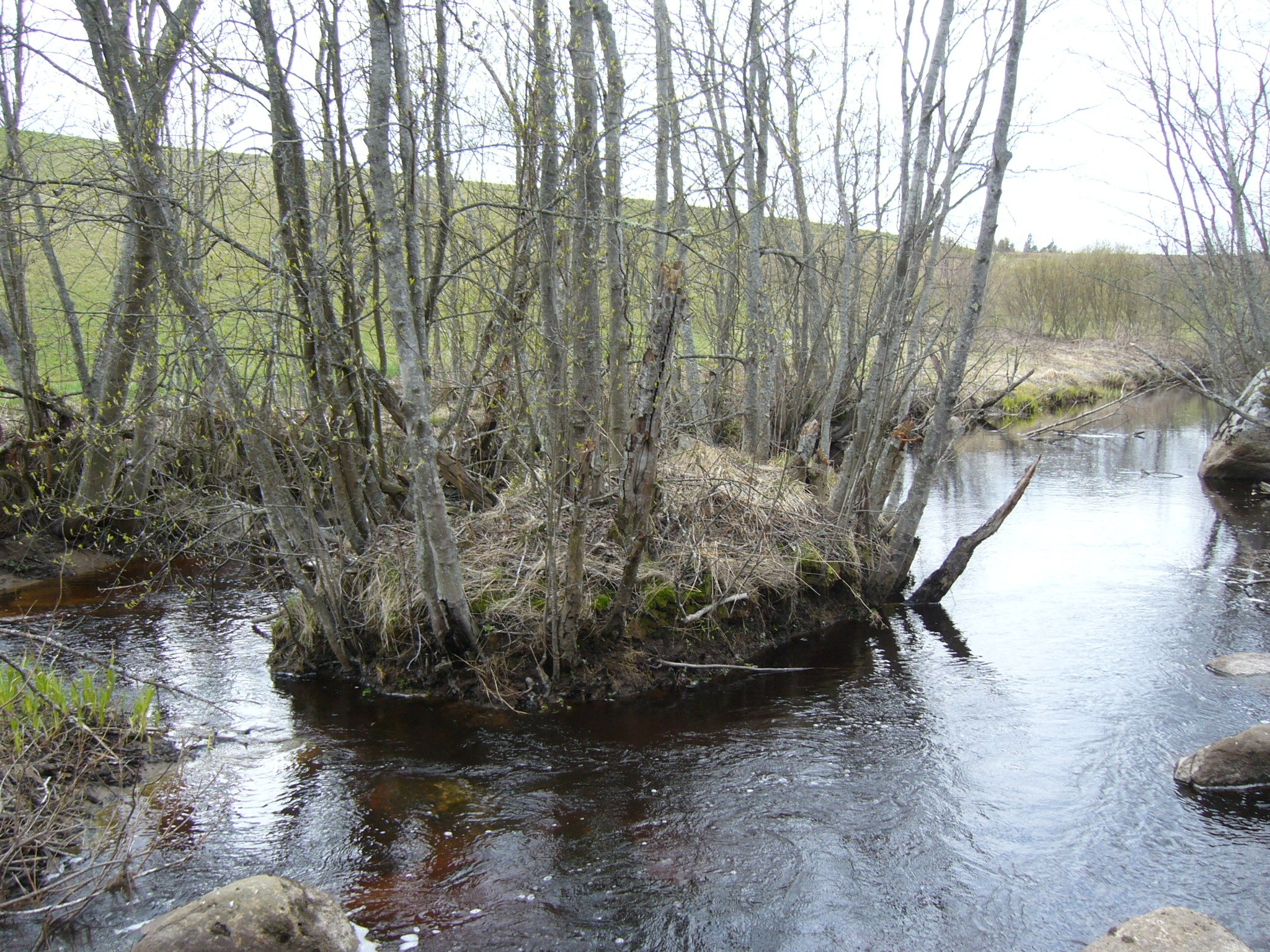 An island in River of Koskutjoki. (Jalasjärvi, Finland)